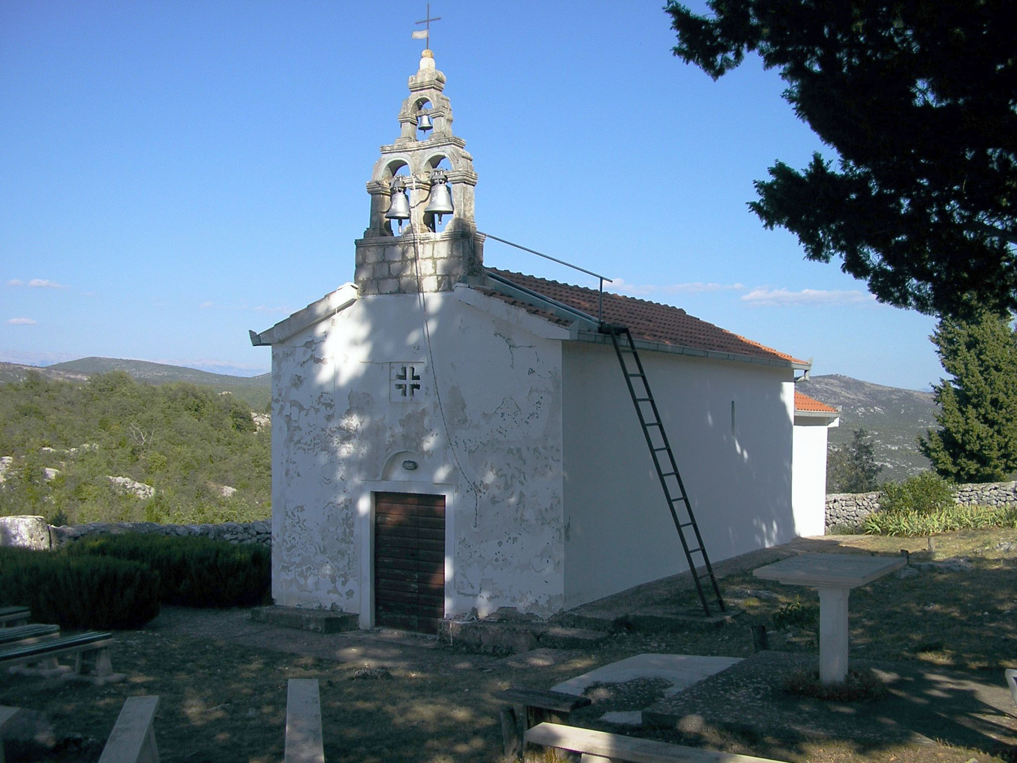 St. John the Baptist's church in Dragovija (Vid, Metković)